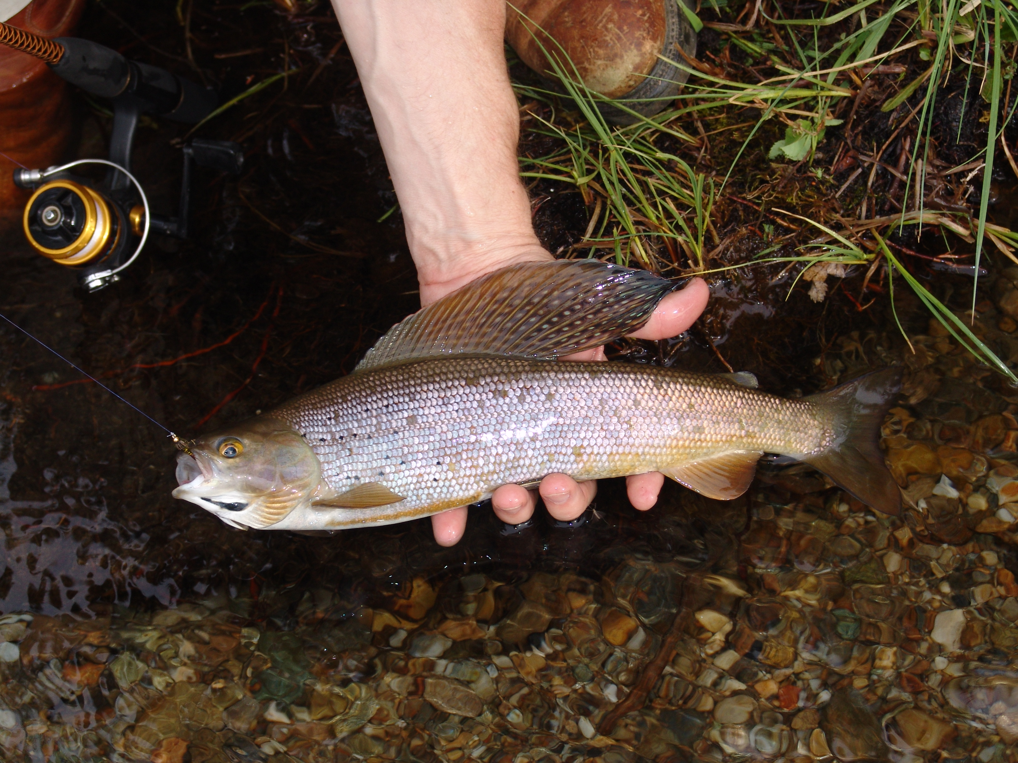 Arctic Grayling. Clearwater Creek Alaska